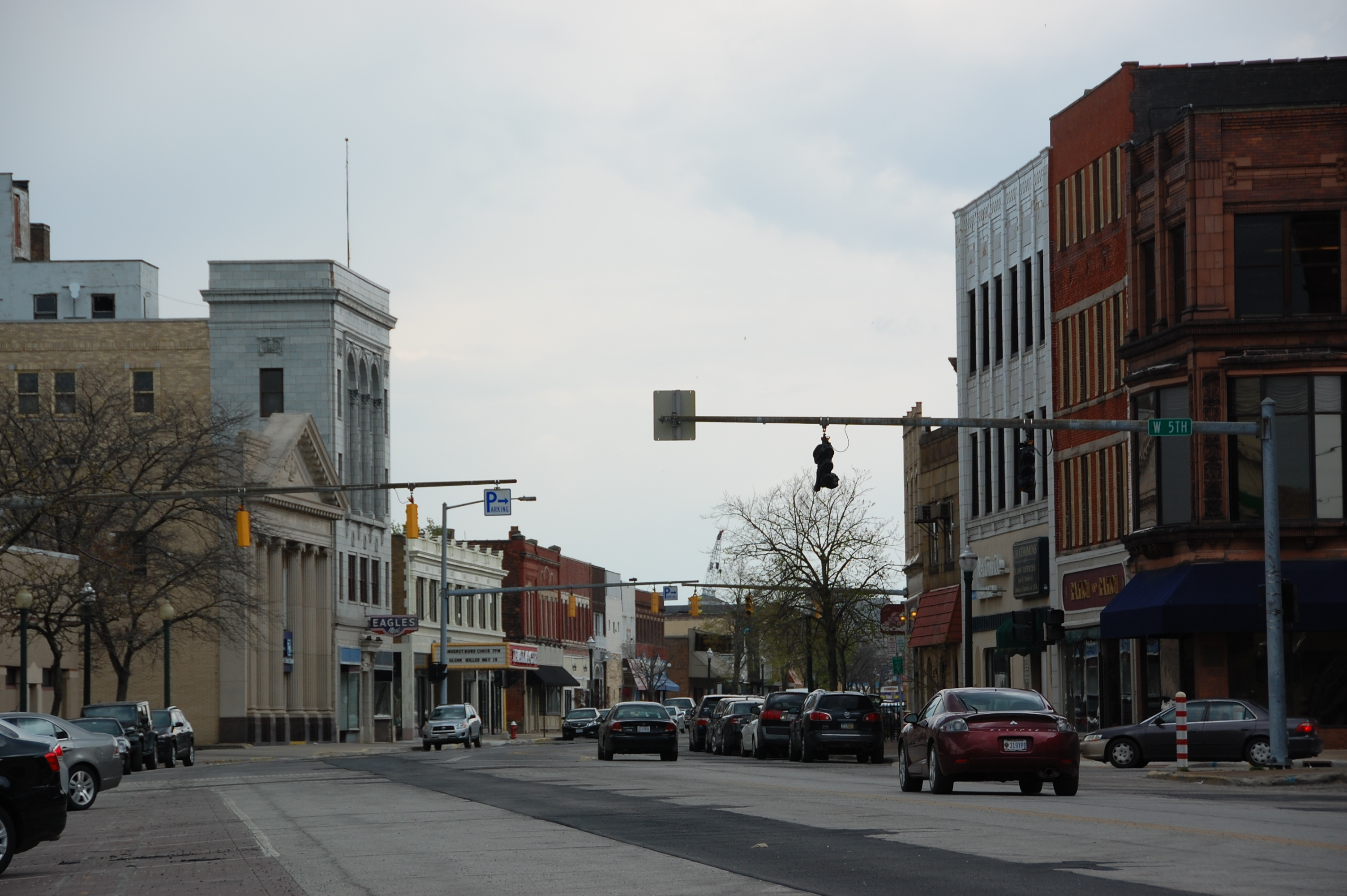 Downtown Lorain, Ohio featuring Eagles Building and Lorain Palace Theater